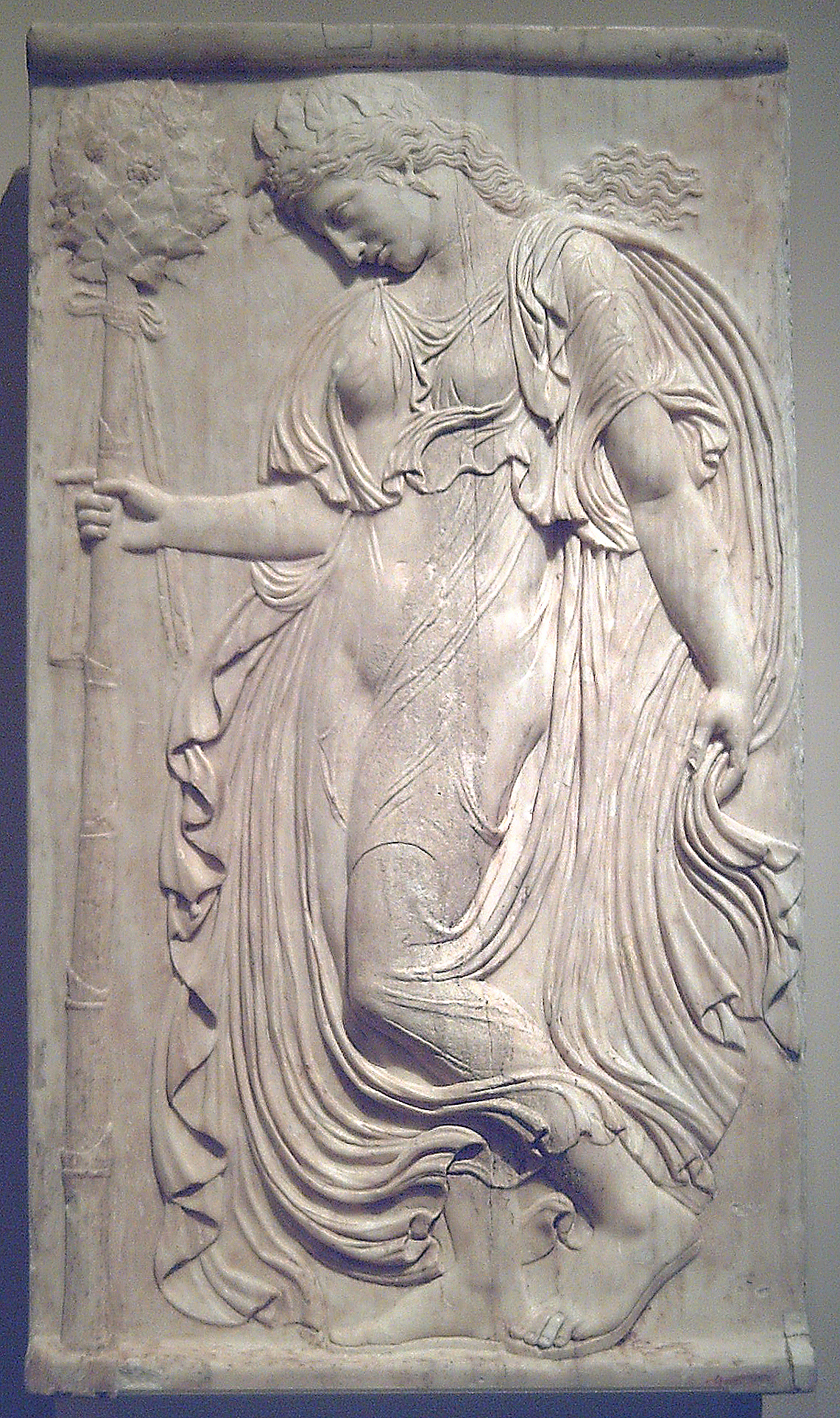 Roman relief showing a dancing maenad holding a thyrsus.